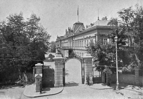 Original description: "The Royal Palace: Sofia"